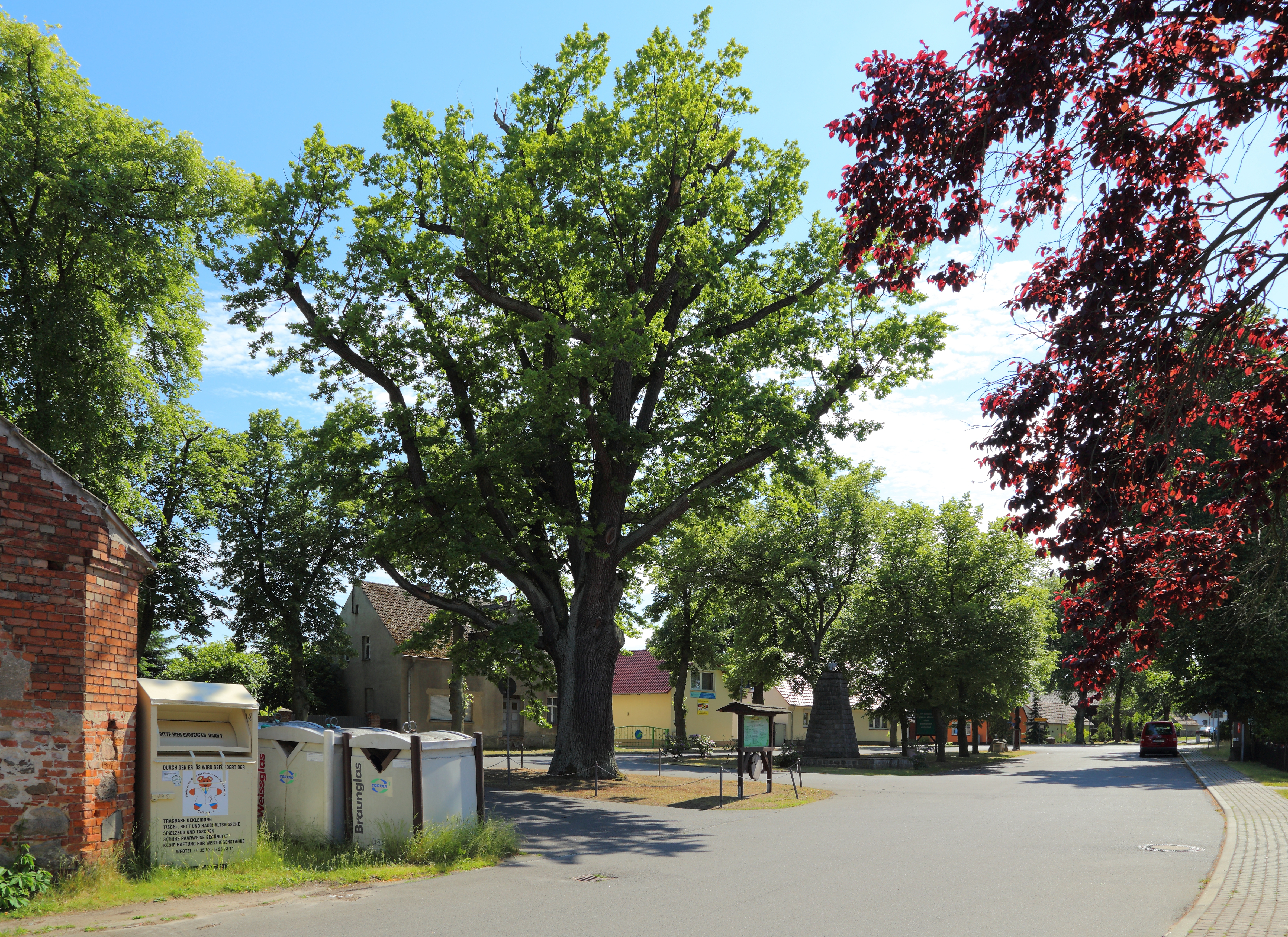 Village green of Goyatz, district of Schwielochsee, Landkreis Dahme-Spreewald, Brandenburg, Germany. The large tree is the natural monument Peace Oak (Friedenseiche).